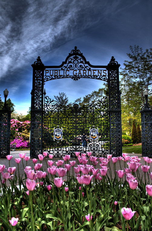 This is a photo of the Gates of the Public Gardens in Halifax, Nova Scotia, Canada.